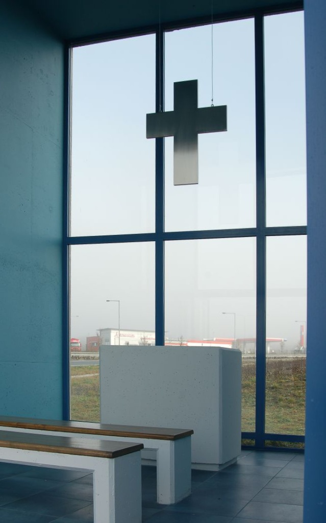 Interior view